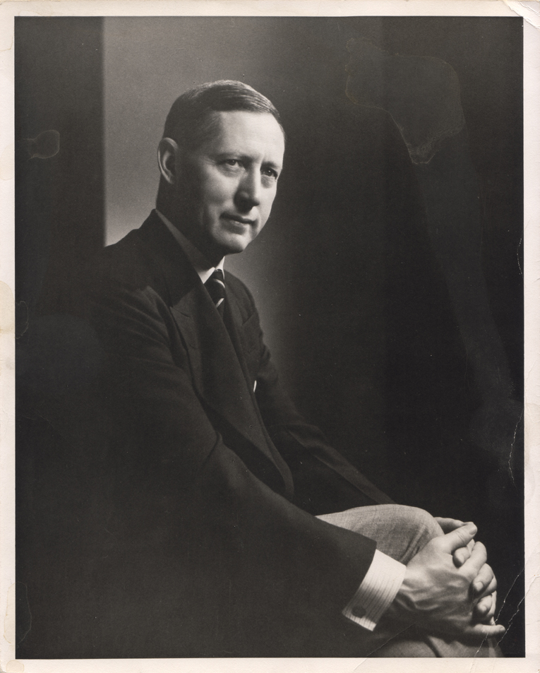 A photo released by the Law Society of Upper Canada of James Lewis Duncan, taken at some point in the 1940s. The Law Society of Upper Canada states on their website that copyright on the image has either expired, or if they own the copyright, it is freely available for use.